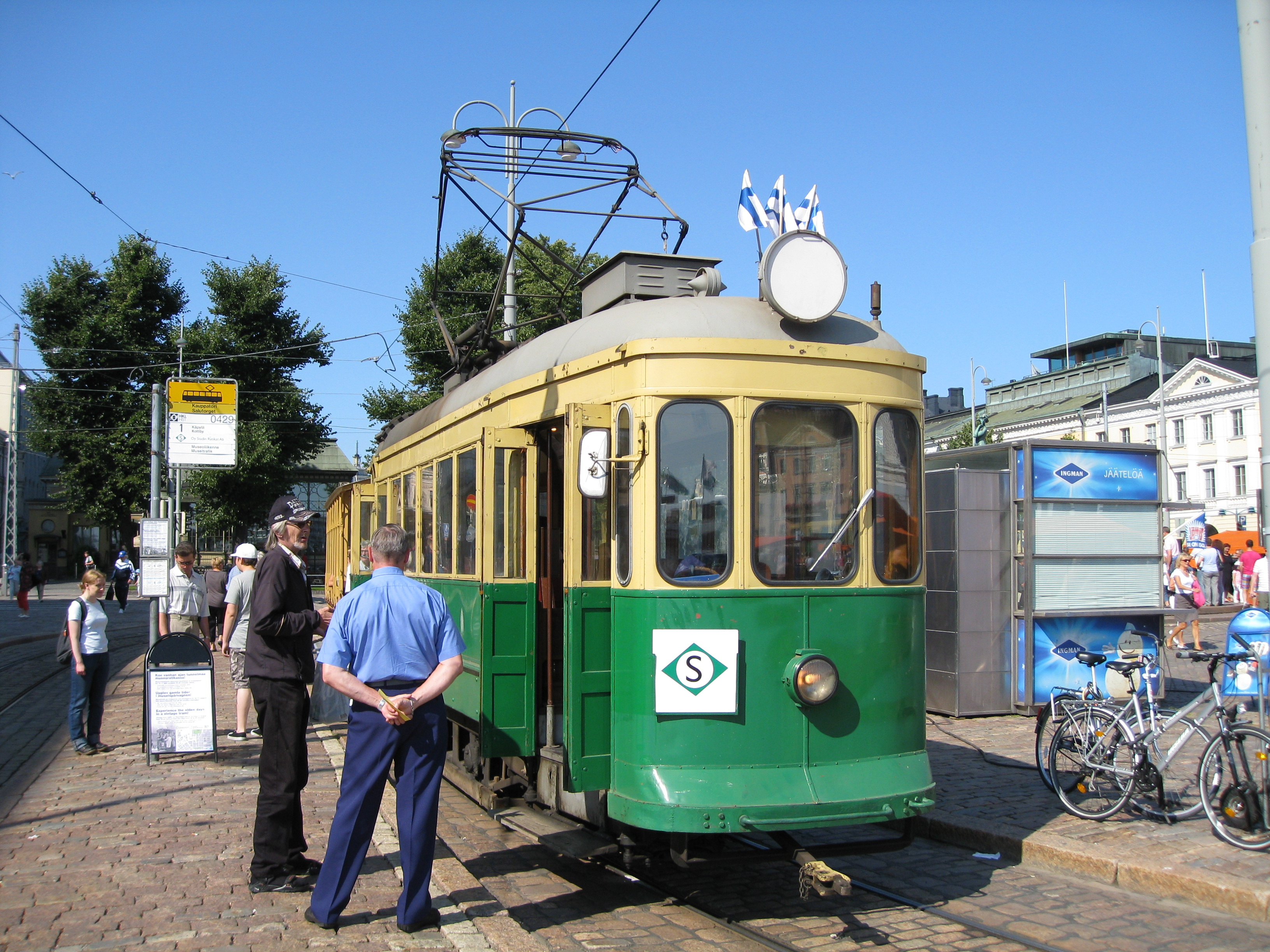 ASEA museum tram of Stadin Ratikat in Helsinki